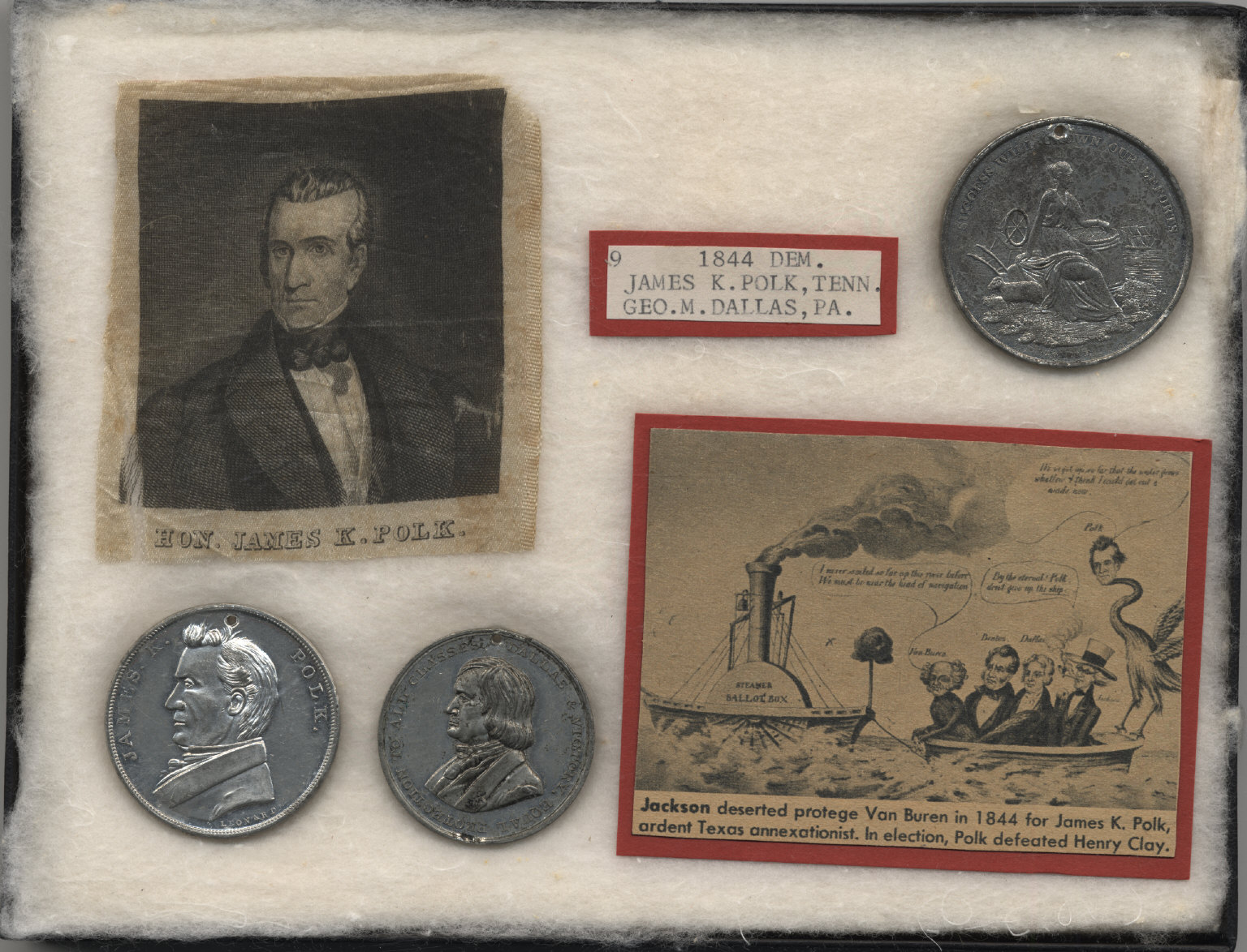 Collection: Cornell University Collection of Political Americana, Cornell University Library Repository: Susan H. Douglas Political Americana Collection, #2214 Rare & Manuscript Collections, Cornell University Library, Cornell University Title: Polk-Dallas Campaign Items, ca. 1844 Political Party: Democratic Election Year: 1844 Date Made: ca. 1844 Measurement: Mount: 6 5/8 x 8 5/8 in.; 16.8275 x 21.9075 cm Classification: Ephemera Persistent URI: There are no known U.S. copyright restrictions on this image. The digital file is owned by the Cornell University Library which is making it freely available with the request that, when possible, the Library be credited as its source.